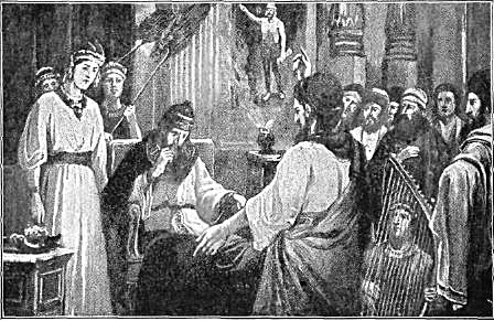 An image of Daniel interpreting Nebuchadnezzar's dream, as described in the Second Chapter of Daniel.